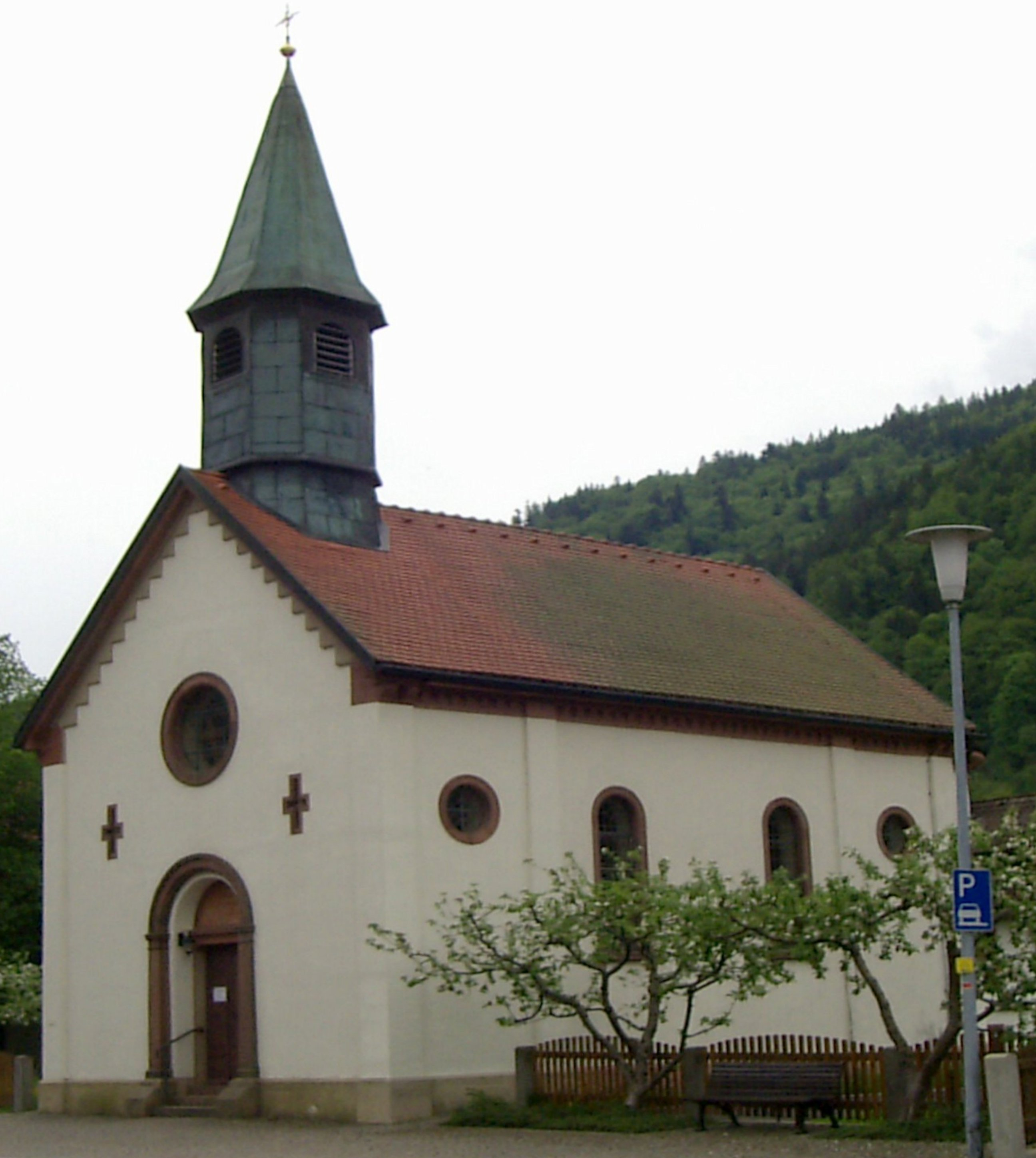 Chapel Saint Apollonia in Utzenfeld, Black Forest, Germany